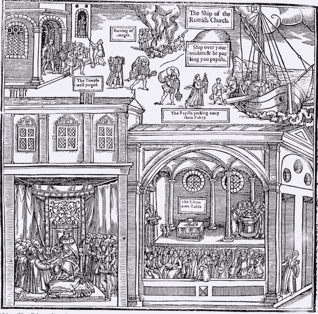 Woodcut image from the 1563 edition of Foxe's Book of Martyrs, depicting iconoclasm. In the top part of the image "papists" are packing away their "paltry," while the church is purged of idols. The bottom left depicts clerics receiving the Bible from King Edward VI, while on the bottom right we see the main elements of Protestant worship, including preaching of the Word and the two Protestant sacraments of communion (with bread and wine) and baptism.